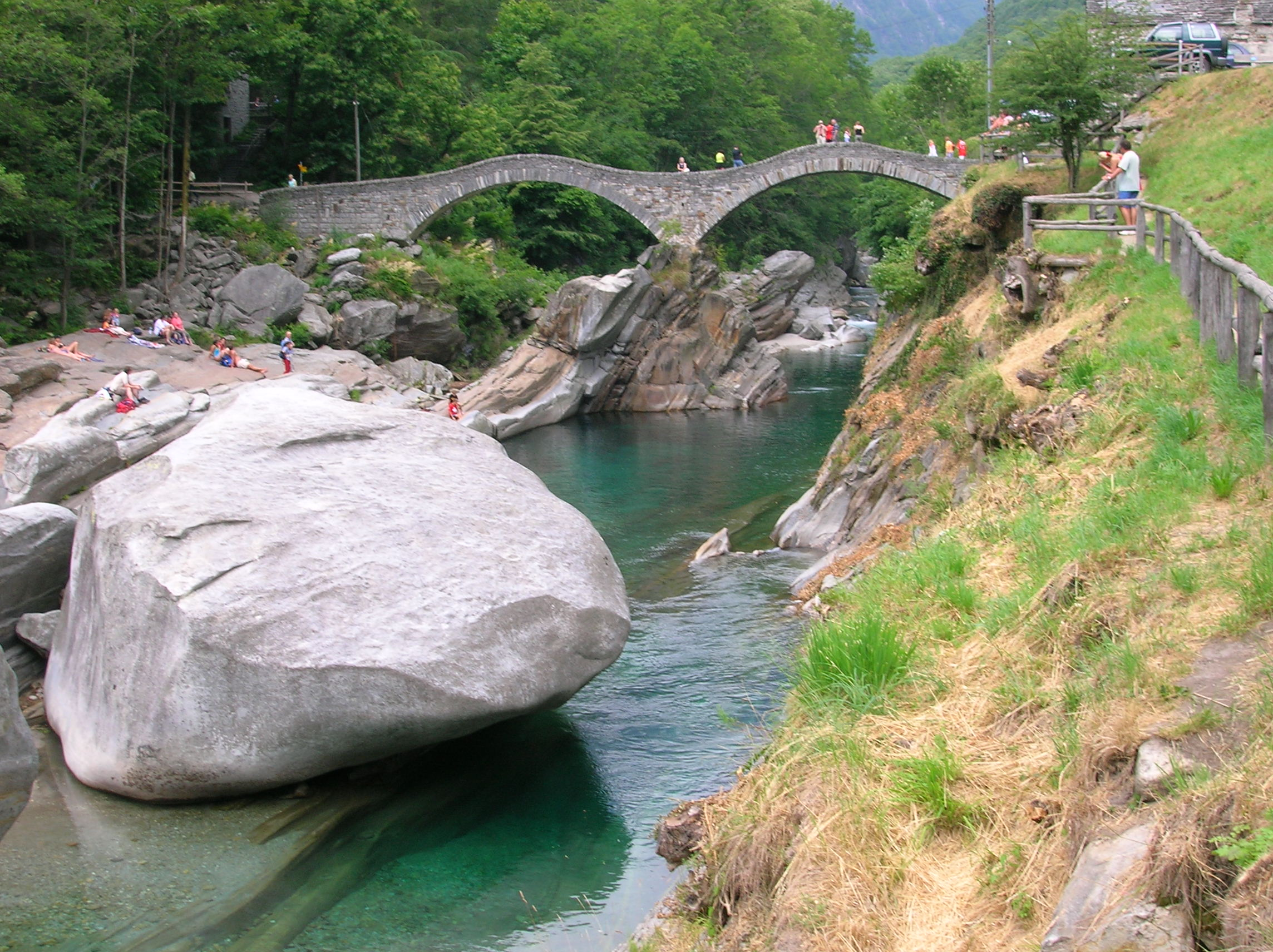 Ponte dei Salti in Lavertezzo